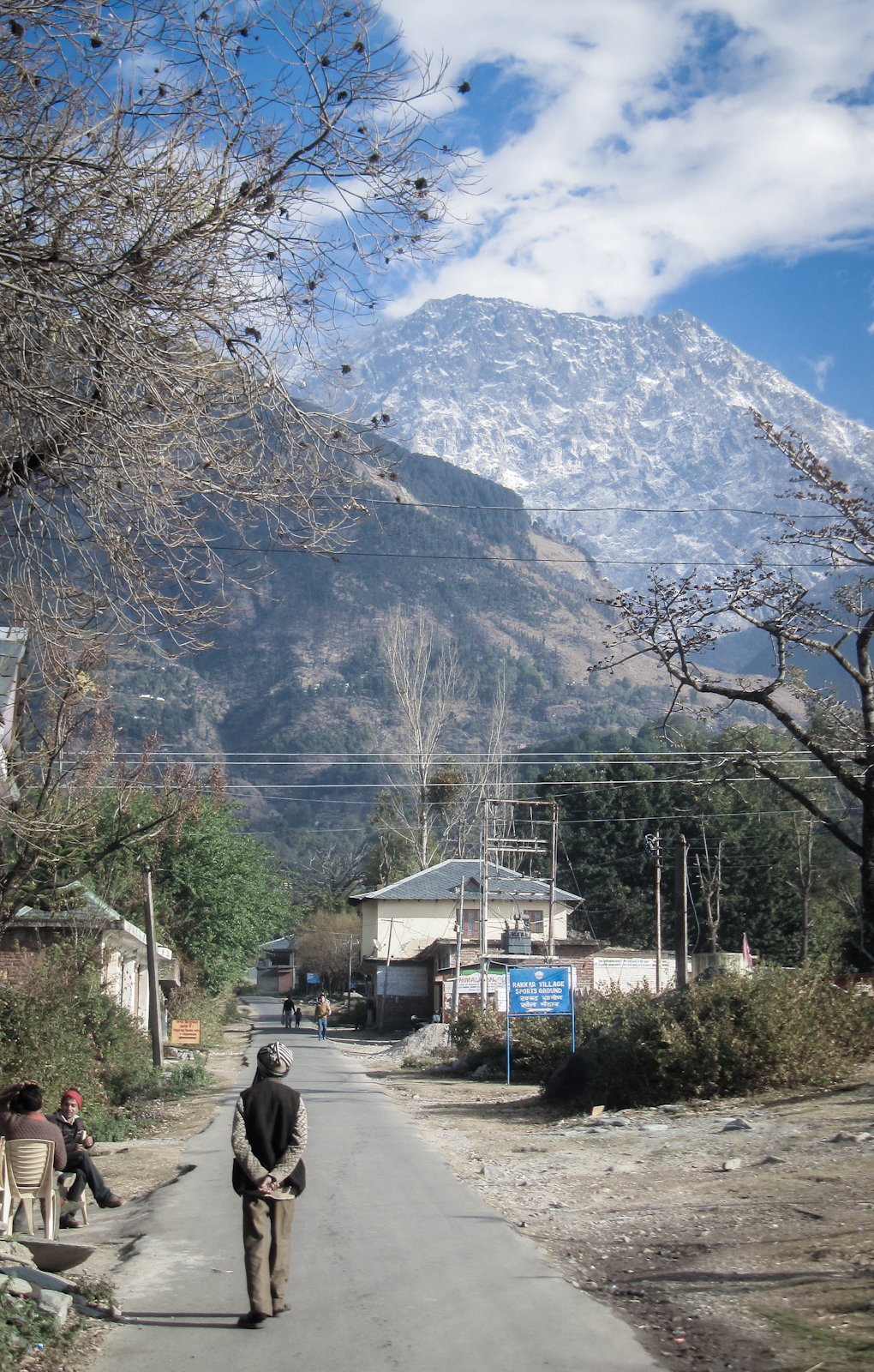 A view of the main street in the village of Rakkar overlooking the Dhauladhars Range of the Himalayas.